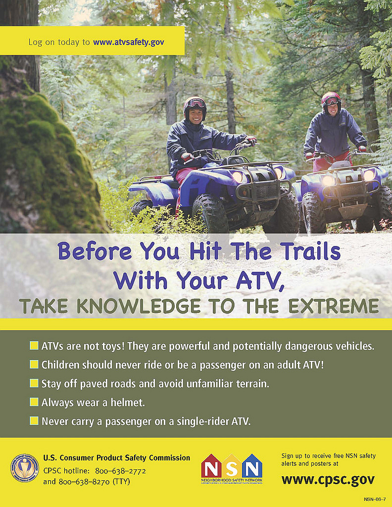 Poster, "ATV Safety: Take Knowledge to the Extreme." Advice on safe practices when operating all-terrain vehicles (ATVs).